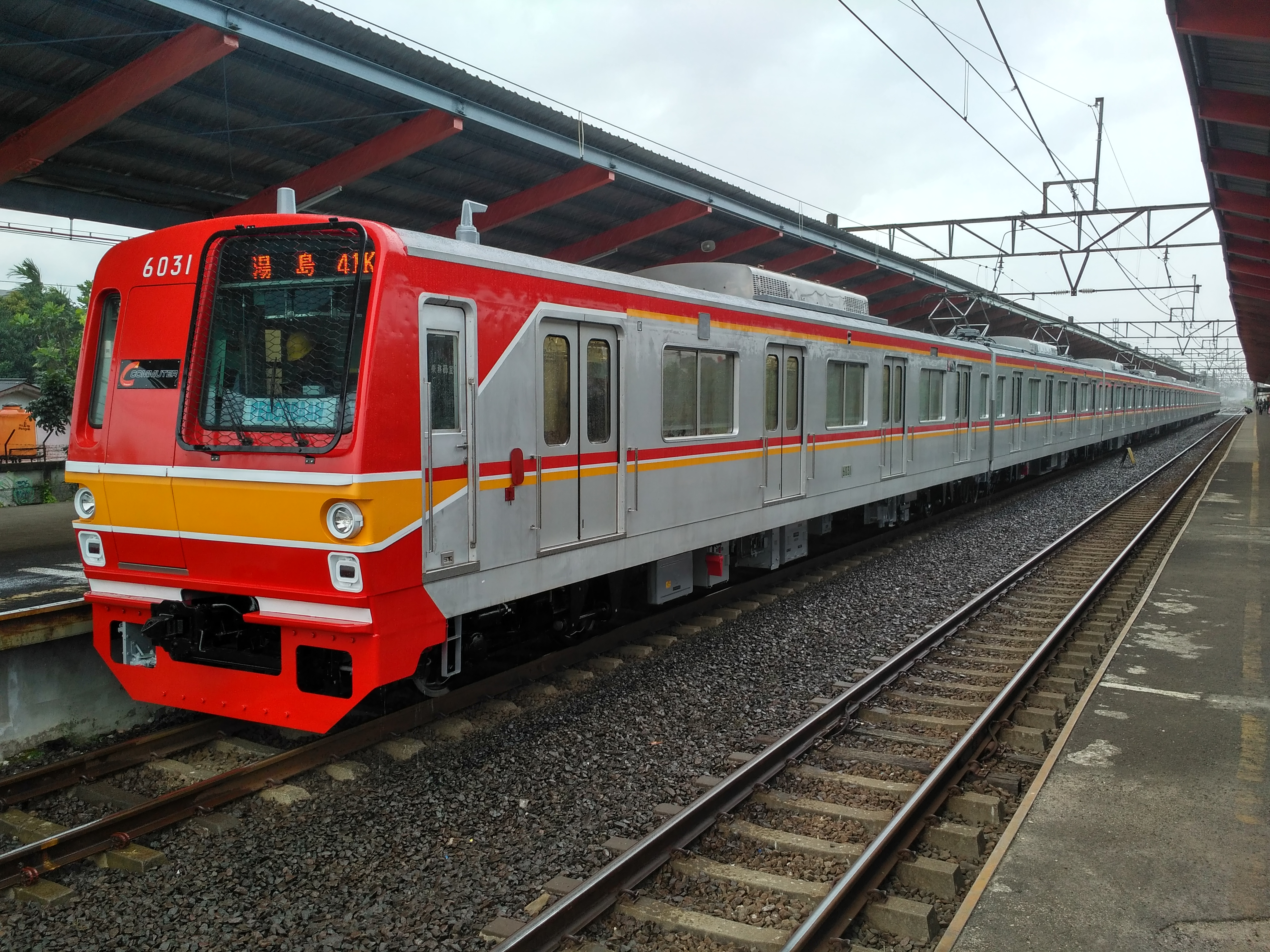 Former Tokyo Metro 6000 series EMU set 6131 on its first test run in Indonesia